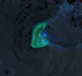 South Reef is a coral reef of Spratly Islands. It lies to the south of Southwest Cay.